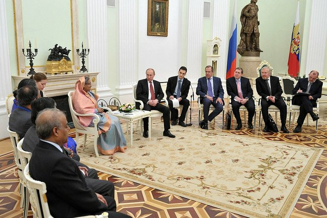 Vladimir Putin held talks with Prime Minister of Bangladesh Sheikh Hasina (Moscow; 2013-01-15).